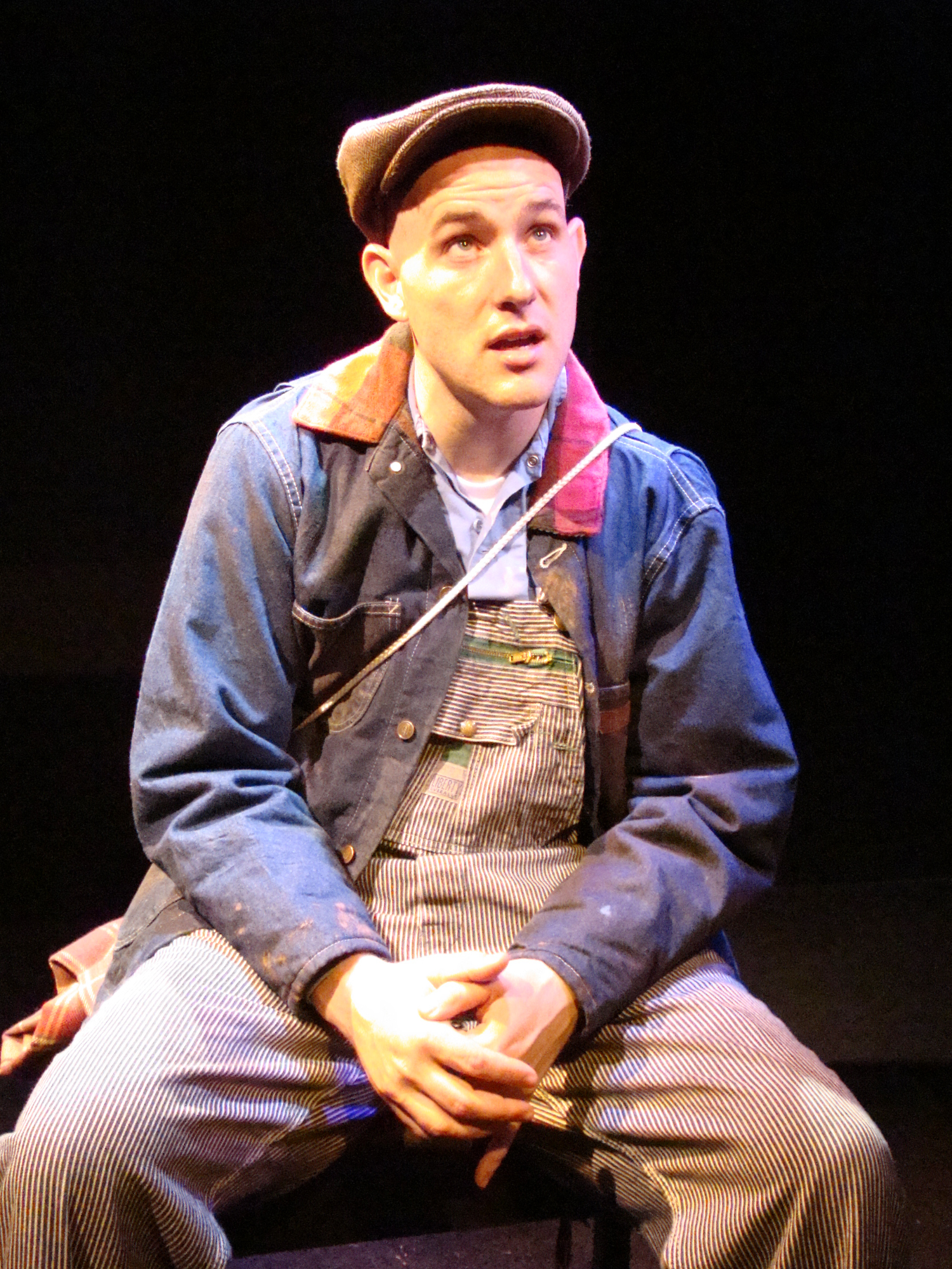 Erman Jones in the Hilberry production of Of Mice and Men in Detroit, MI, USA